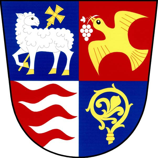 Municipal coat of arms of Koválovice-Osíčany village, Prostějov District, Czech Republic.